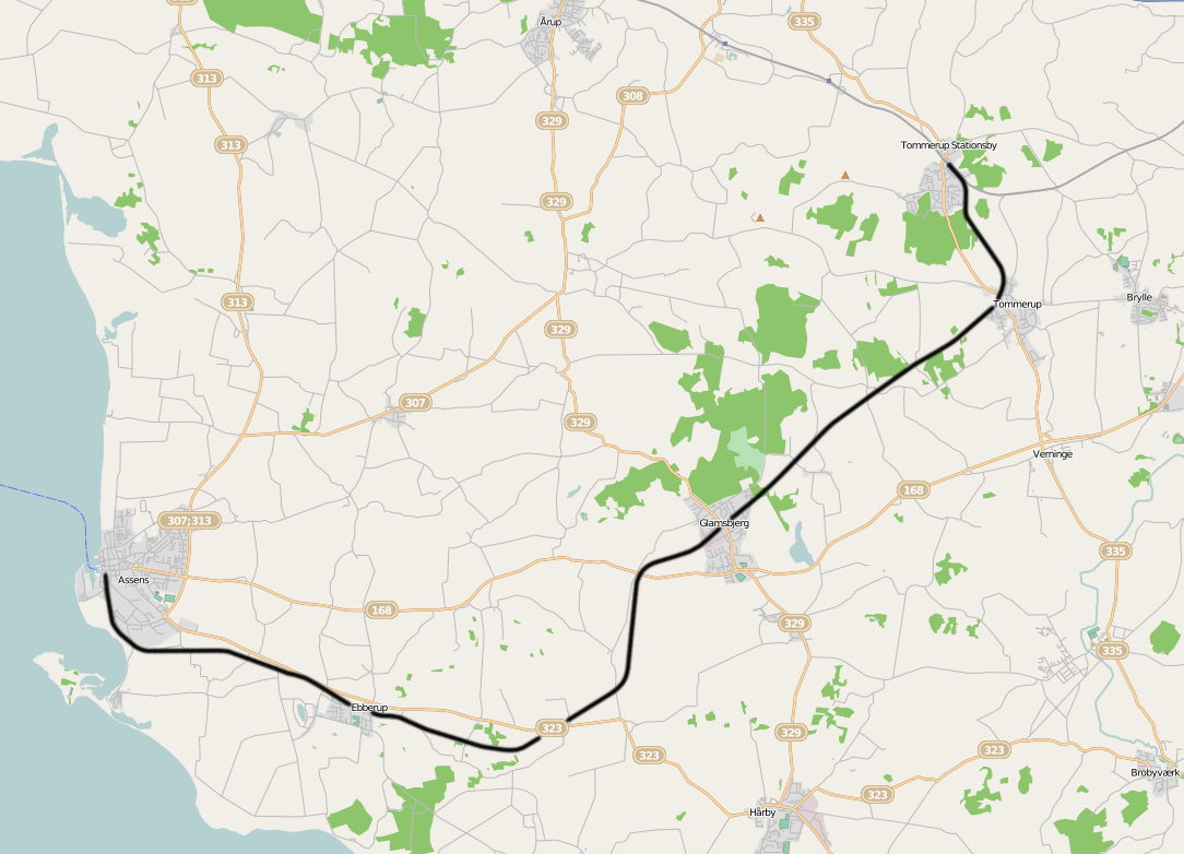 Railway line Tommerup - Assens